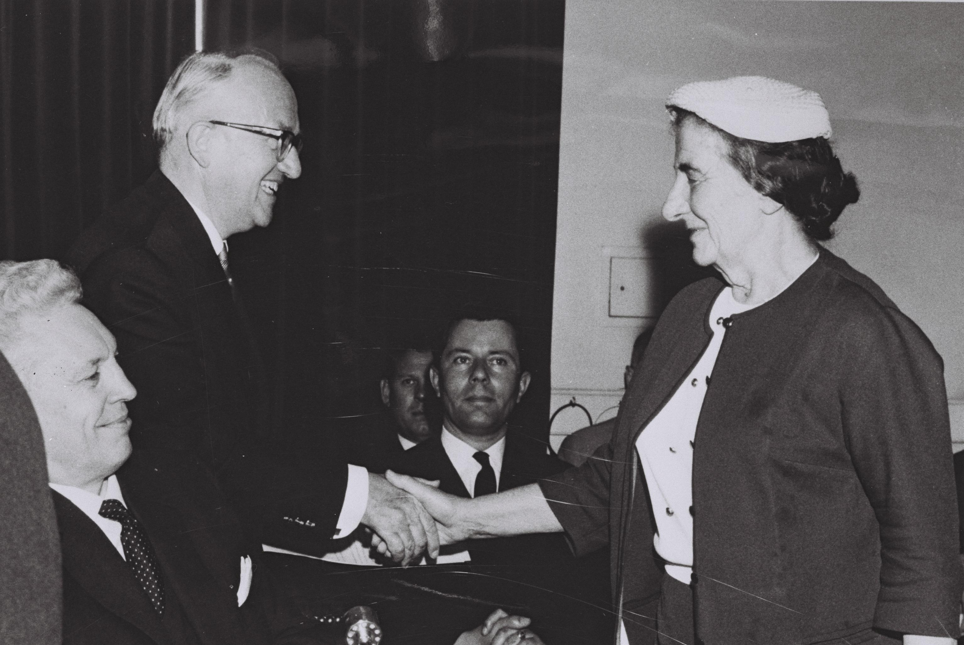 FOREIGN MIN. GOLDA MEIR SHAKING HANDS WITH PRES. EUROPEAN ECONOMIC COMMUNITY PROF. HALLSTEIN DURING THE SIGNATURE OF TRADE AGREEMENT BETWEEN ISRAEL & BRUSSELS.